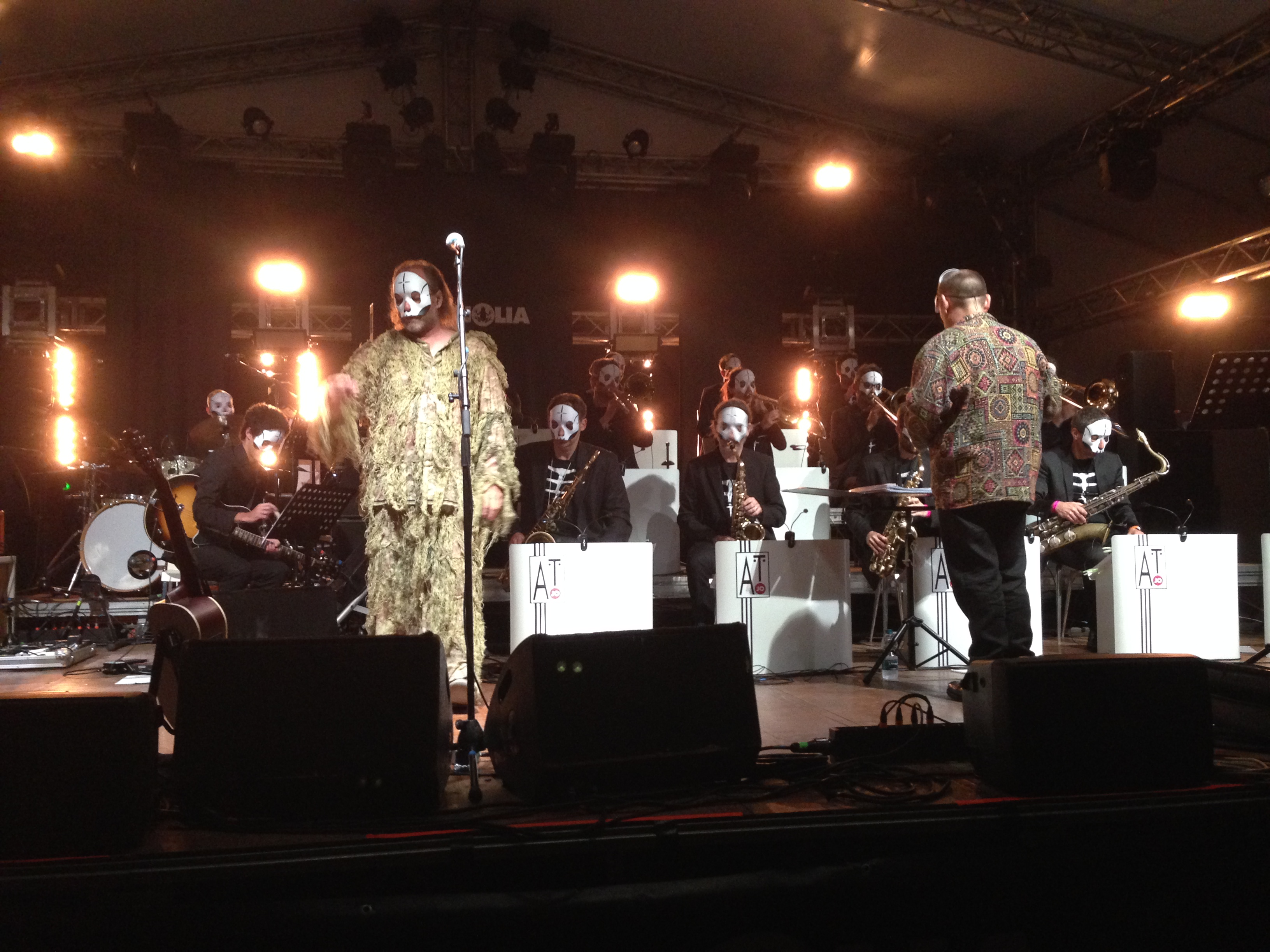 Tre allegri ragazzi morti with the Abbey Town Jazz Orchestra in the 2015 tour Quando eravamo swing (When we were swing)